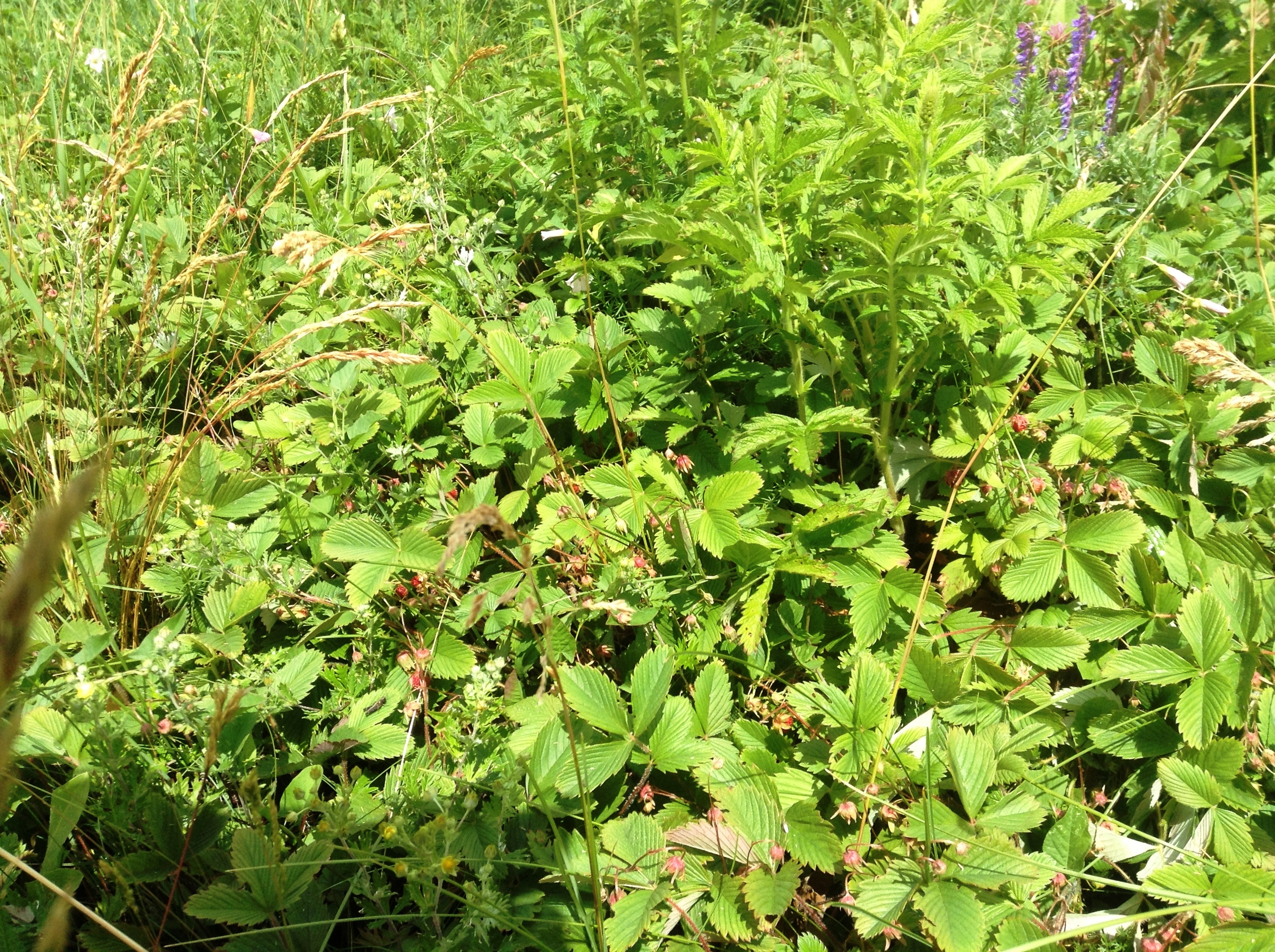 Sosnovka Bekovo 2014 Wild Strawberries